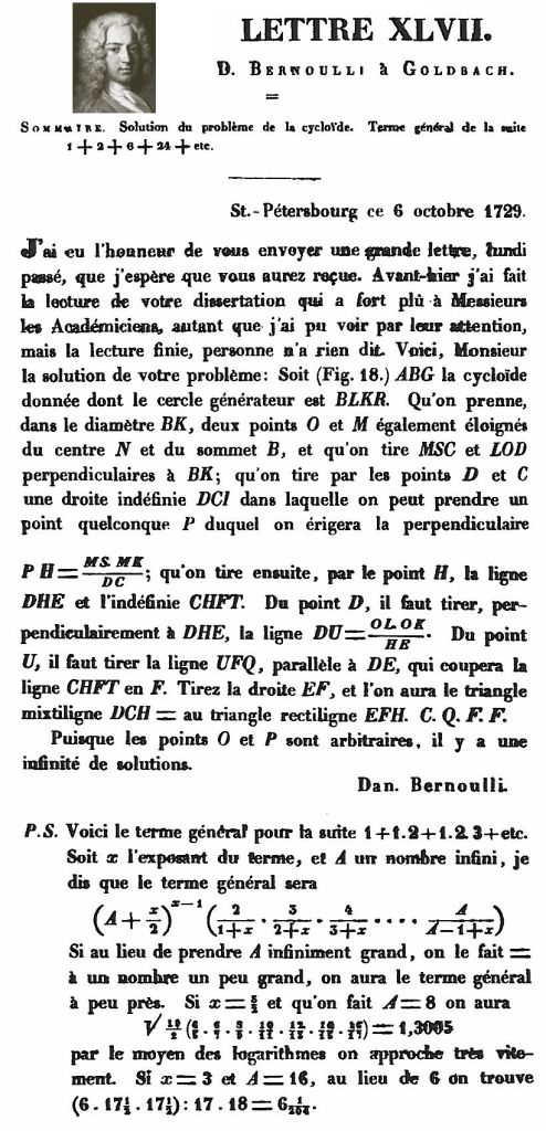 Daniel Bernoulli's letter to Goldbach from 1729-10-06 giving the first representation of an interpolating function of the factorials in form of an infinite product, later known as the gamma function. Published by Paul Heinrich Fuss, „Correspondance mathématique et physique de quelques célèbres géomètres du XVIIIeme siècle ..“, St. Pétersbourg, 1843, Tome II, page 324-325.